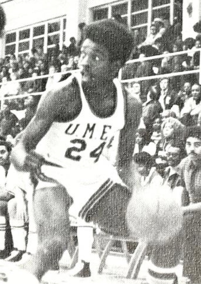 Rubin Collins of the Maryland Eastern Shore Hawks dribbles the ball in a 1973–74 game.